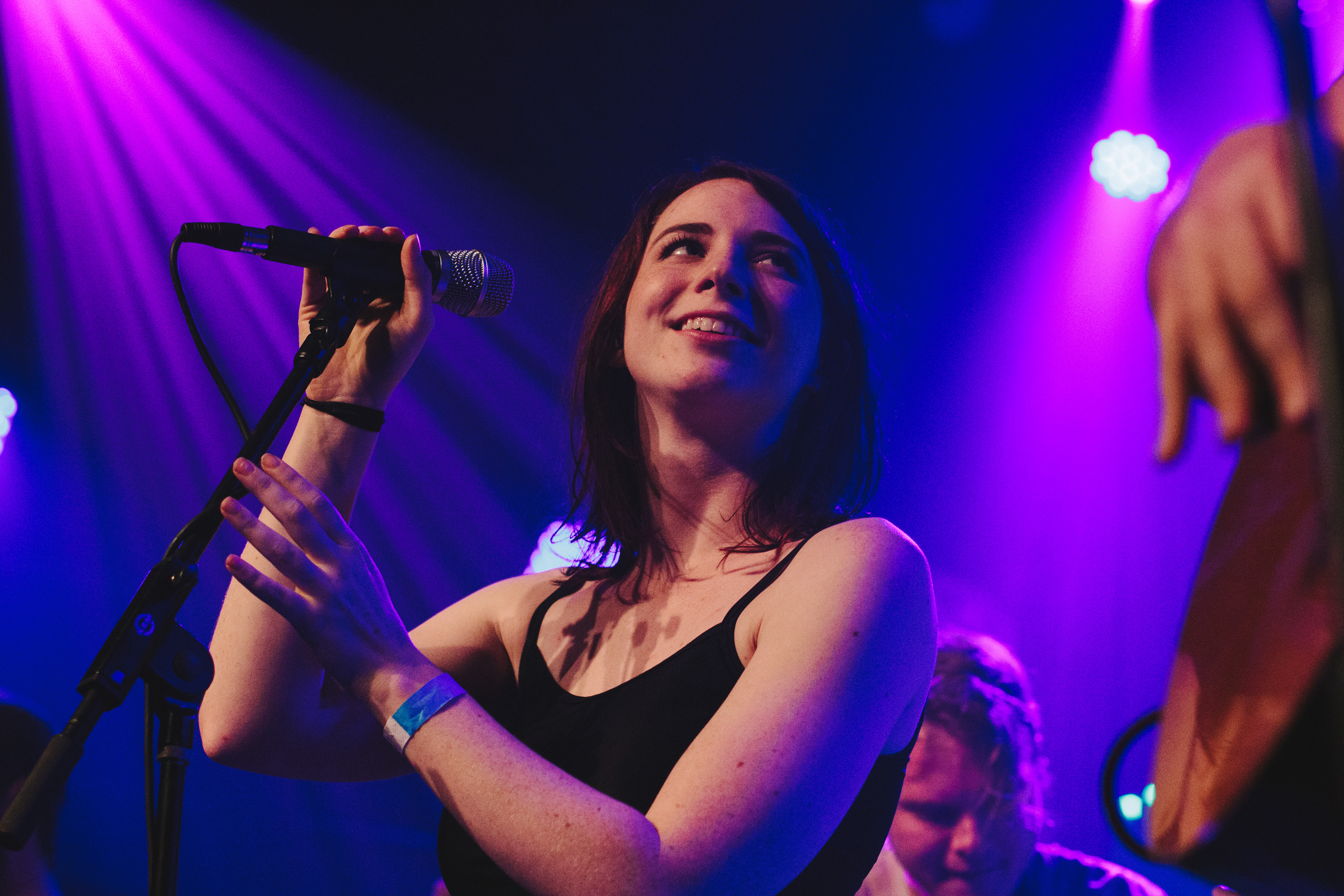 The Oh Hellos